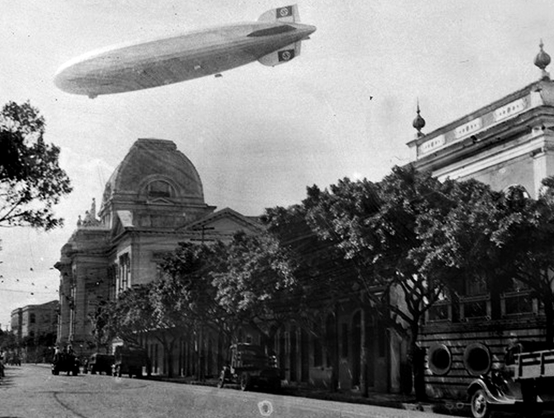 The Hindenburg (LZ-129) flying over San Antonio district of the city of Recife, capital of Pernambuco, Brazil, on its first transatlantic trip in 1936.